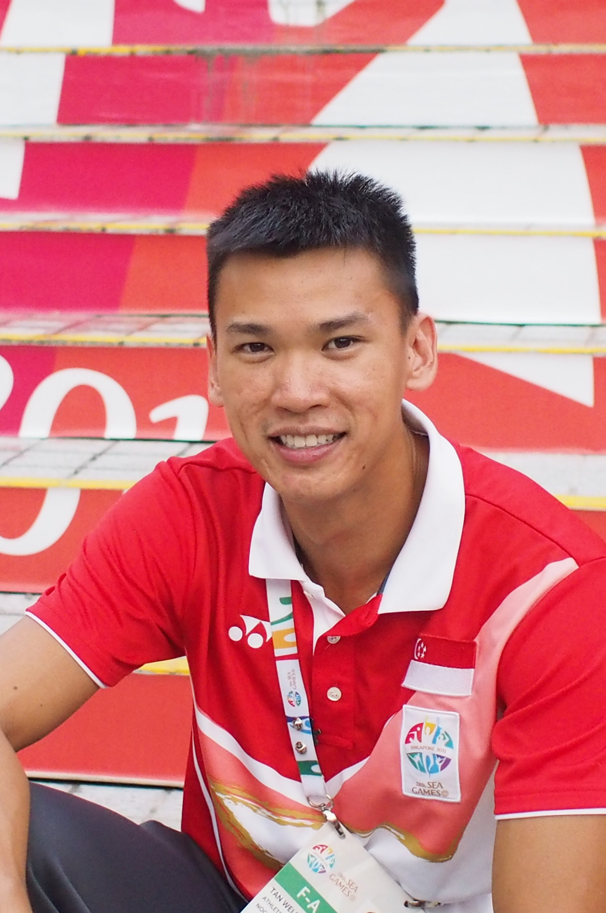 Singaporean track cyclist and former sprinter Lance Tan Wei Sheng at the 2015 Southeast Asian Games.